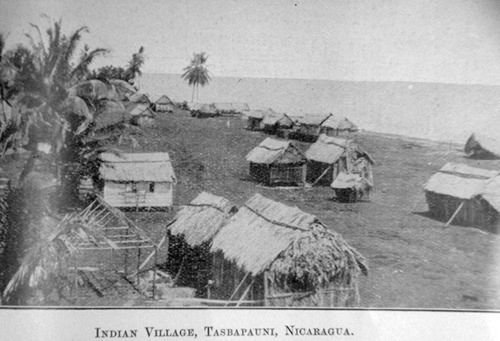 Miskito village in Tasbapauni, Nicaragua